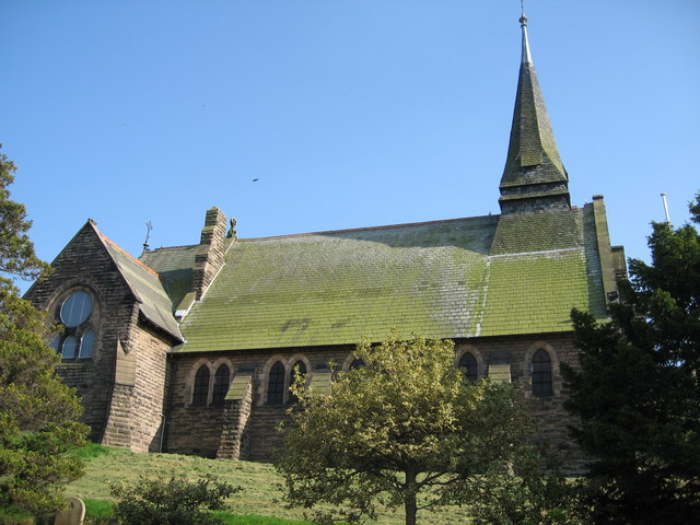 Photograph